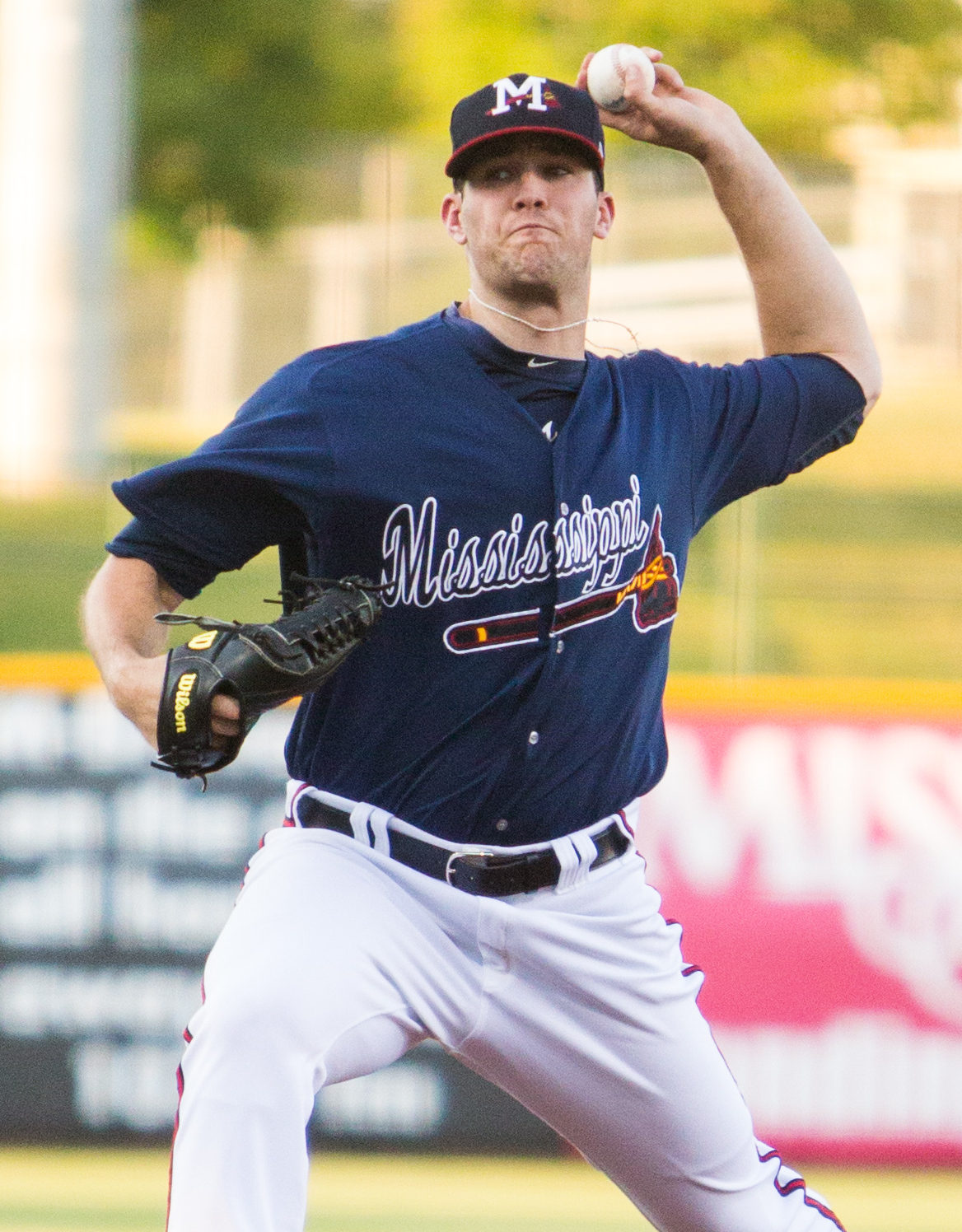 Starting pitcher Alex Wood at Trustmark Park in Pearl, Mississippi pitching for the AA affiliate of the Atlanta Braves.